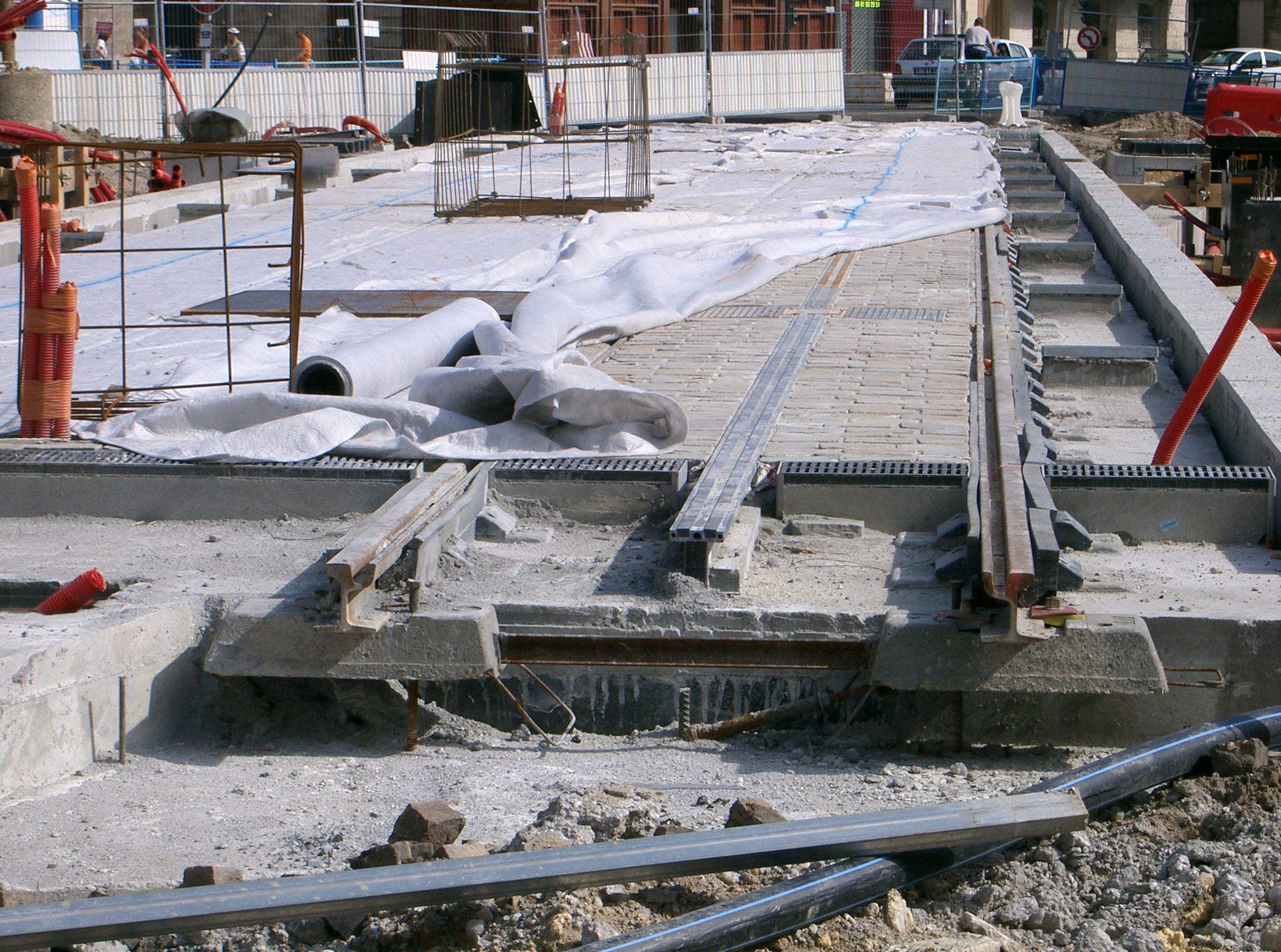 Track with APS under construction in place paul doumer, Bordeaux Photographed by SPSmiler summer 2006